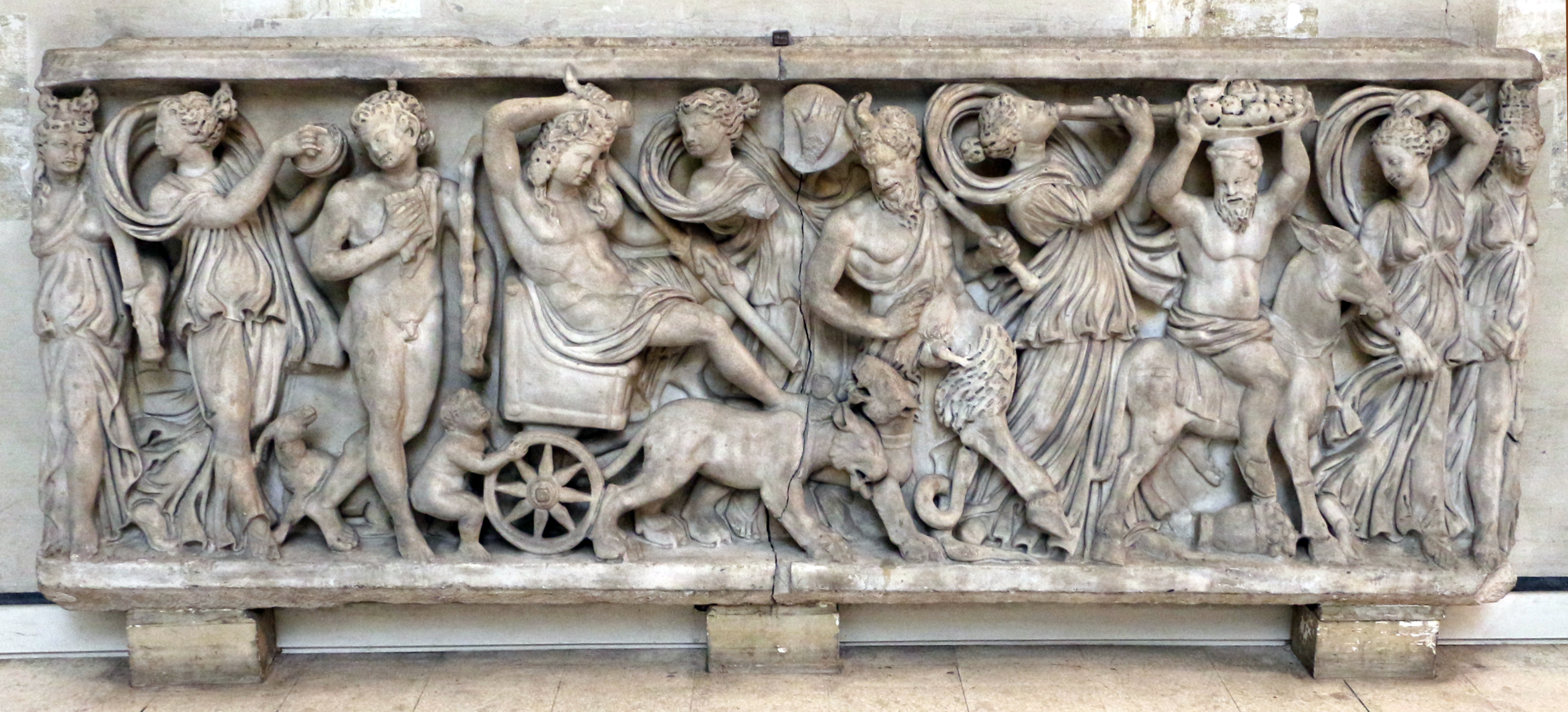 Sculptures in the Galleria Doria Pamphilj (Rome)